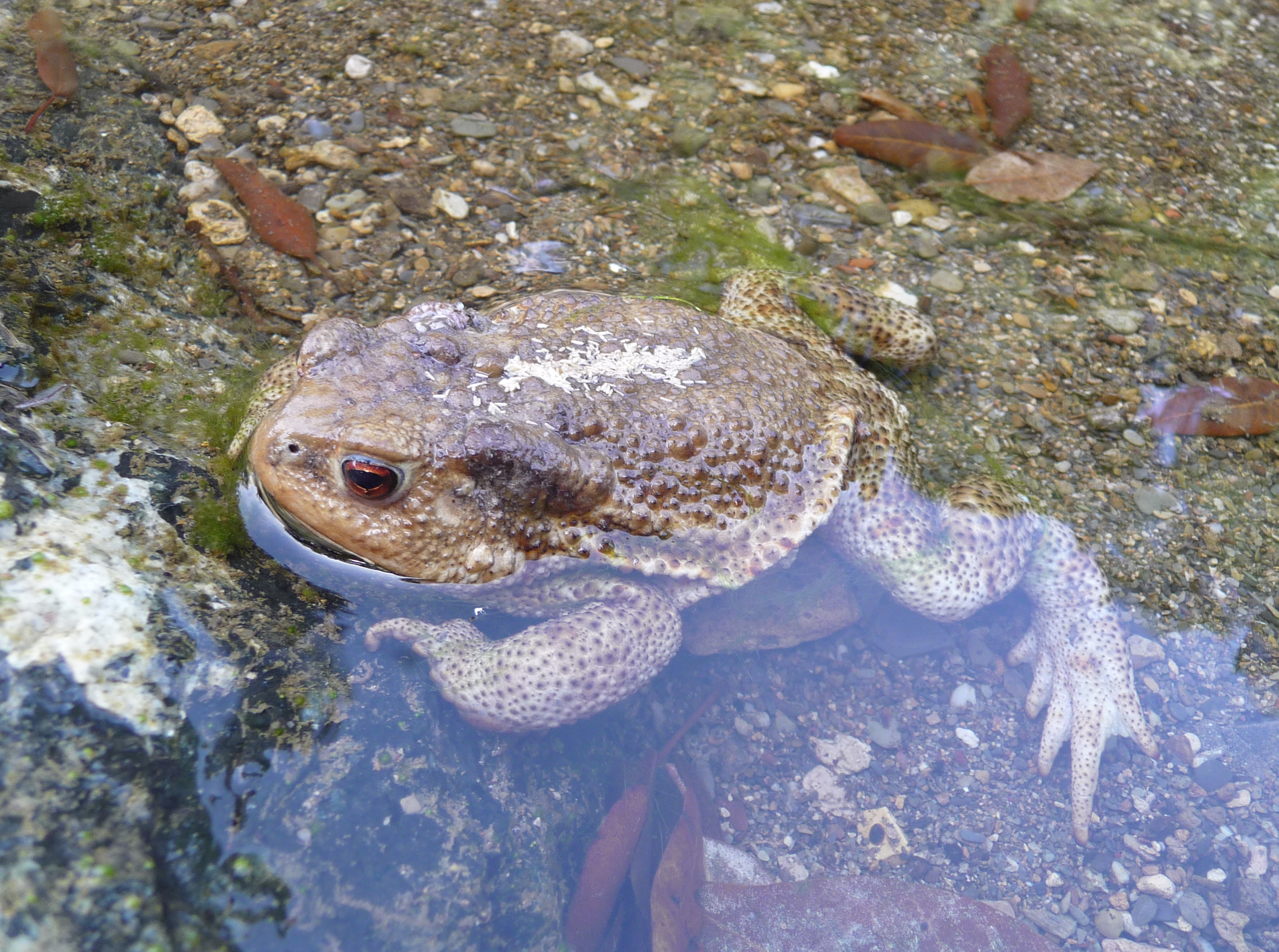 Bufo bufo spinosus, with fly eggs (Lucilia bufonivora ?), near Livorno, Tuscany, Italy